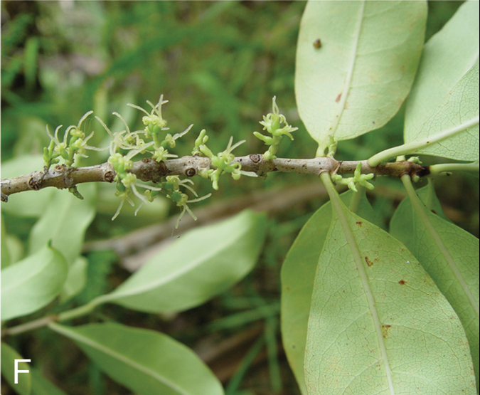 Coprosma temetiuensis W. L. Wagner & Lorence, branchlets with female flowers (Hiva Oa, Lorence & Dunn 8931, photos D. Lorence).